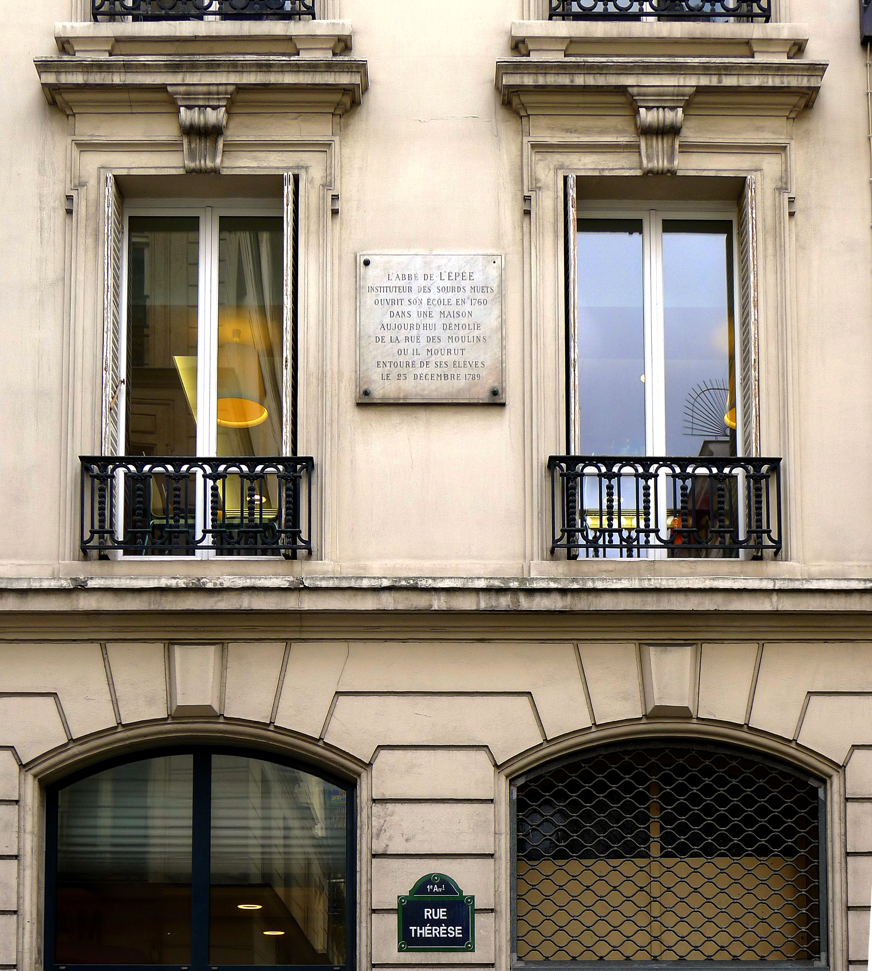 Thérèse street (n°23) - Paris